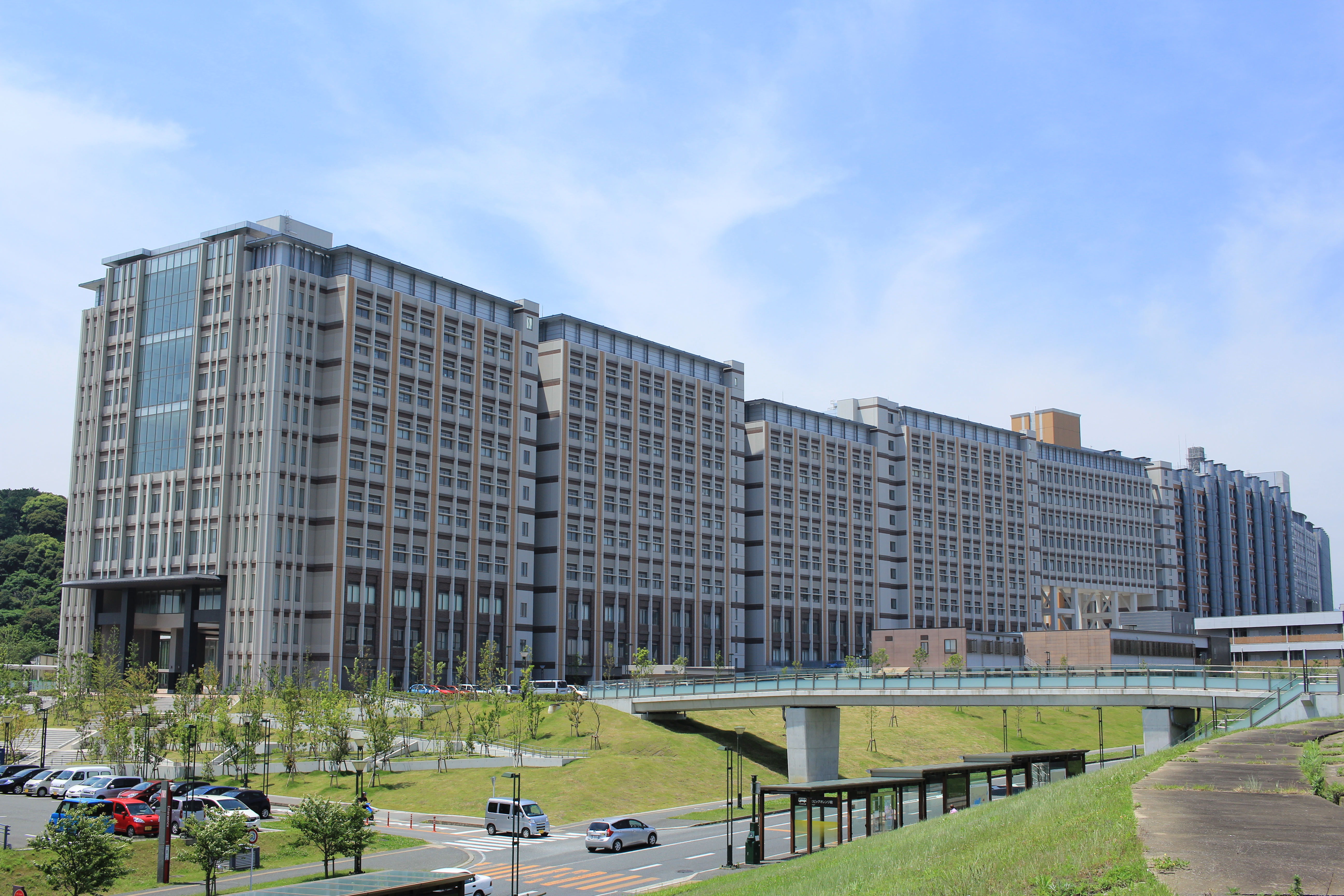 Kyushu University Ito Campus West Zone 1 Canon EOS 60D